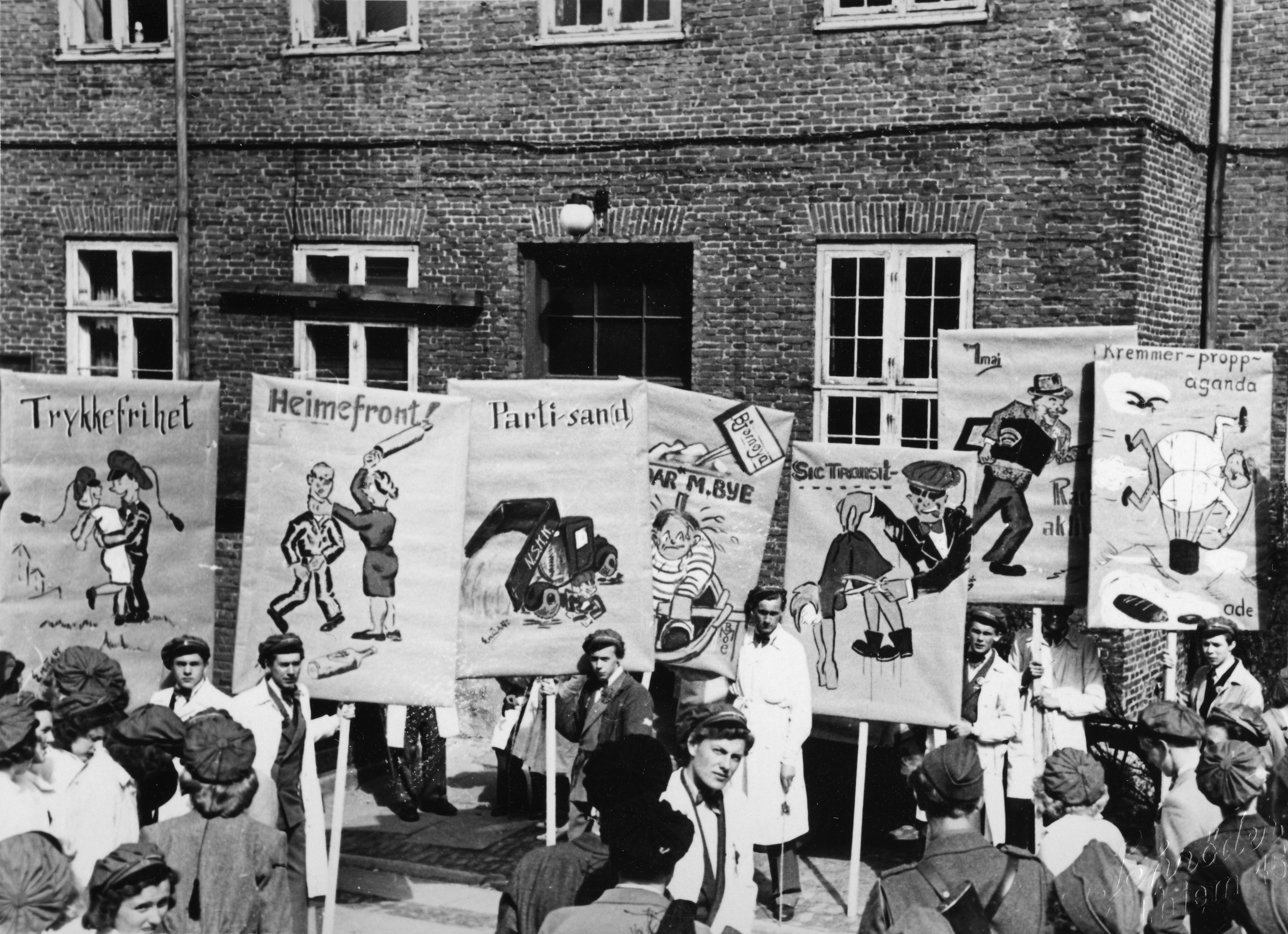 Format: Fotopositiv Dato / Date: 17. mai 1945 Fotograf / Photographer: Mulig Schrøder eller Trygve Gjervan (1918 - 2004) Sted / Place: Katedralskolen, Trondheim Wikipedia: Trondheim katedralskole Wikipedia: Russefeiring Wikipedia: Russefeiring (eng) Eier / Owner Institution: Trondheim byarkiv, The Municipal Archives of Trondheim Arkivreferanse / Archive reference: Tor.H42.B53.F23874 Merknad: Fra Trygve Gjervans privatarkiv